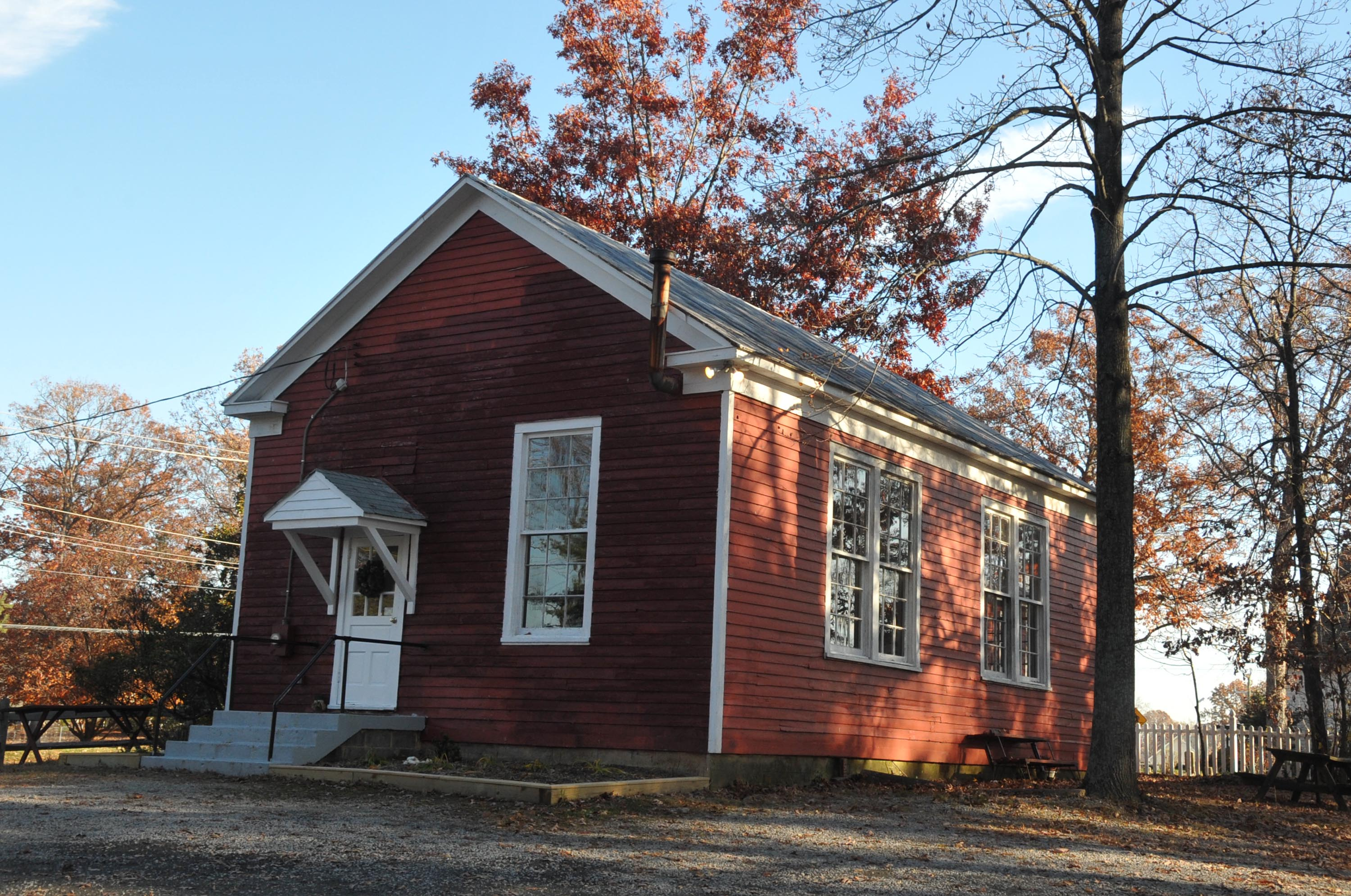 Built in 1928 and was the last operating one-room school house in Fairfax County; closed in 1939. Now used as a community center